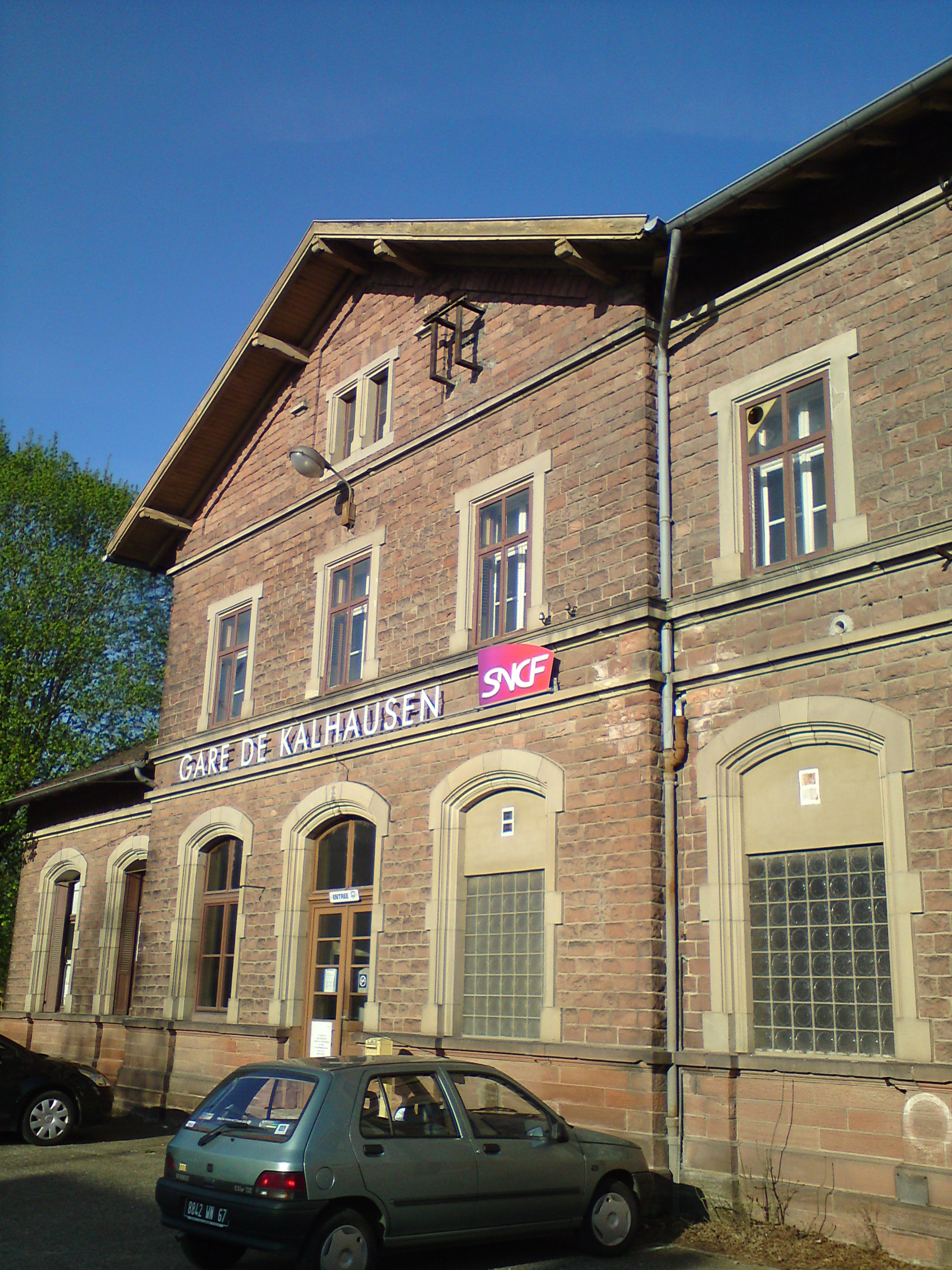 Front of Kalhausen Station (France)